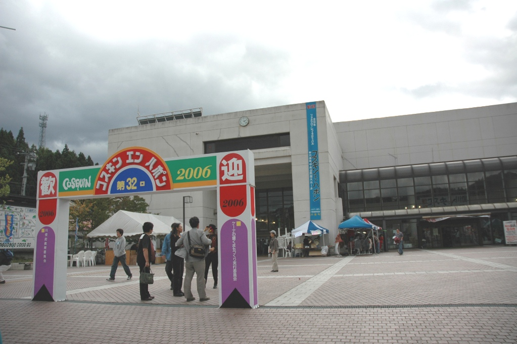 Cosquín en Japón in Kawamata Town, Fukushima Prefecture, Japan